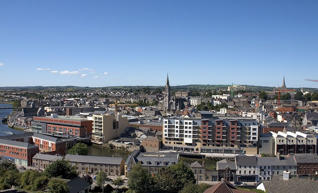 Photographer: Stephen Durnin ©2007